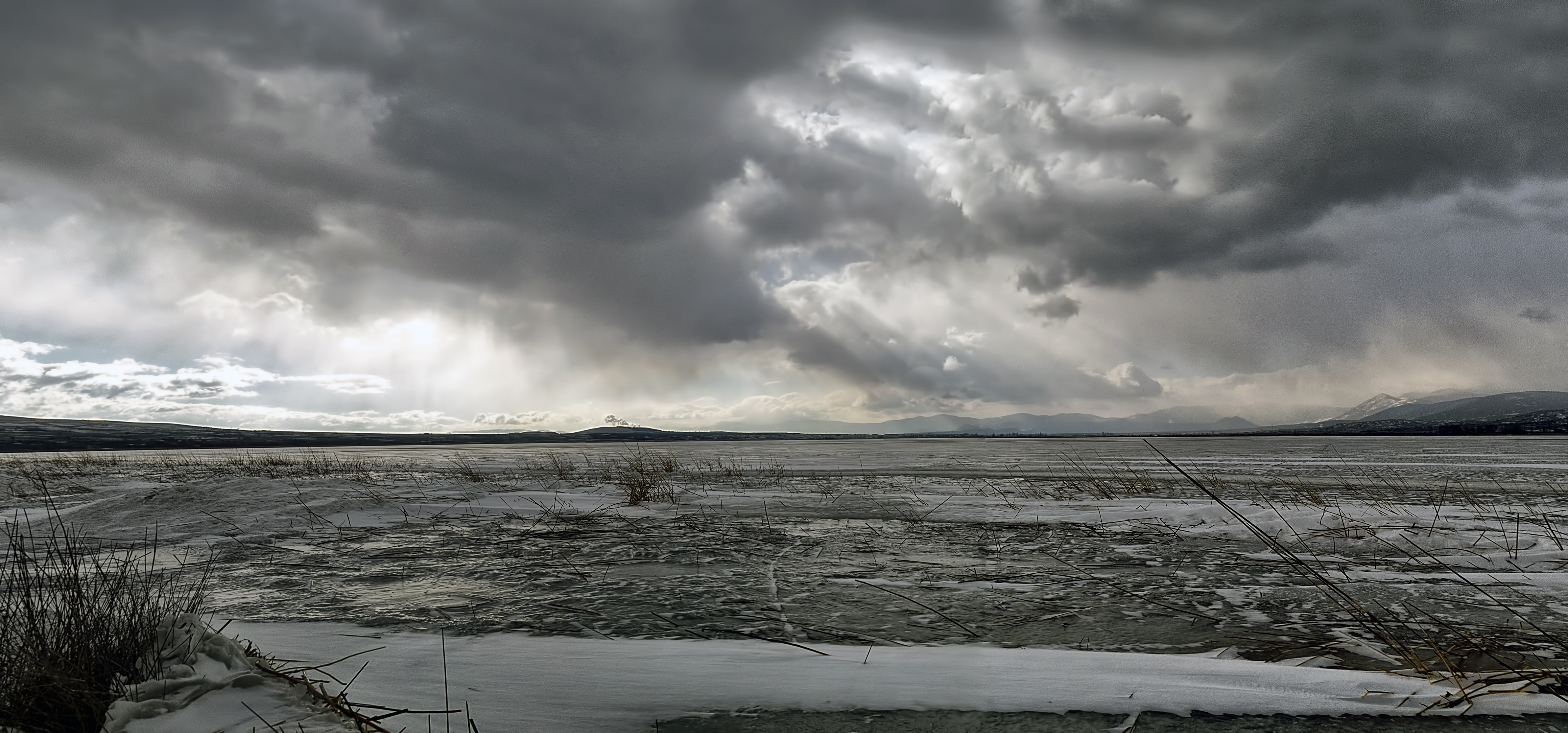 This is a photography of Natura 2000 protected area with ID GR1340007